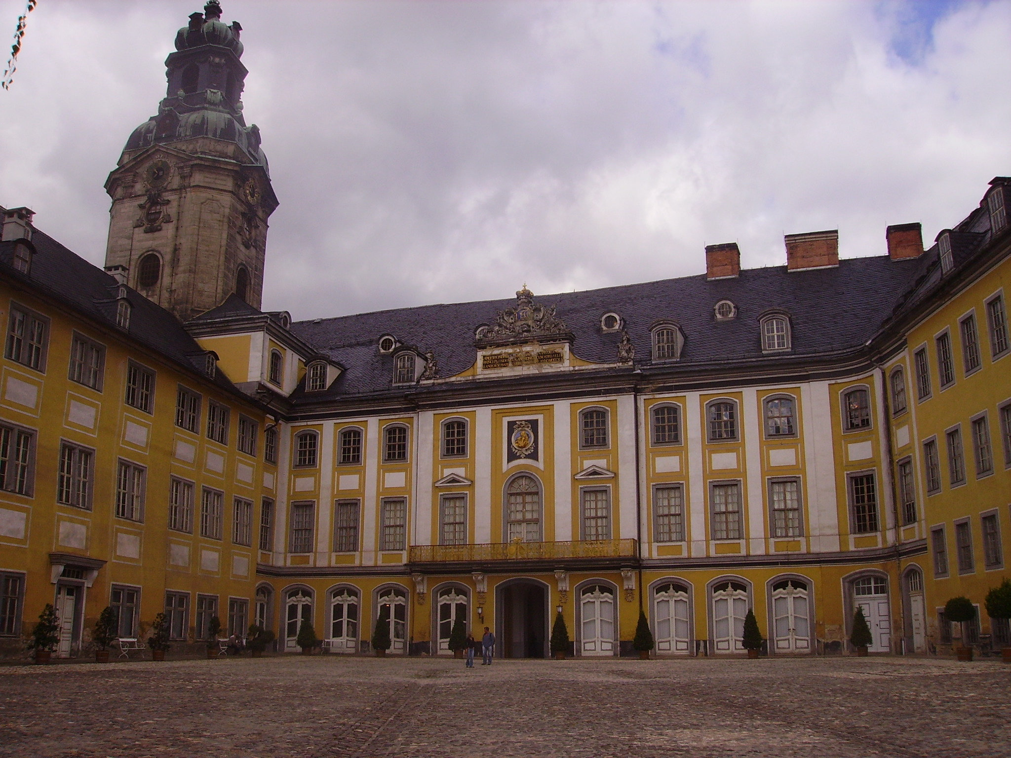 Heideckburg Castle in Rudolstadt